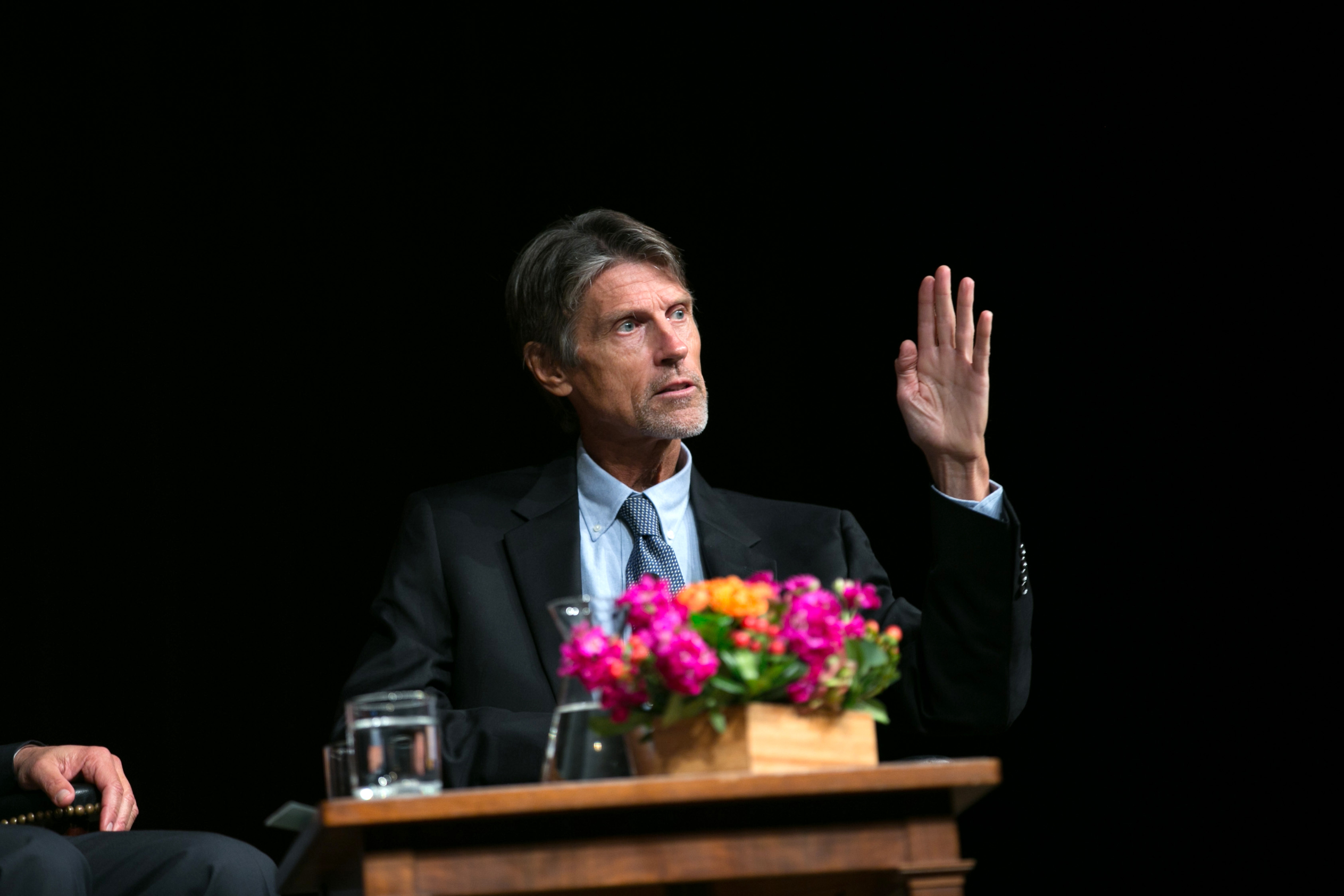 Members of Friends of the LBJ Library gathered in the LBJ Auditorium on Oct. 20th, 2015, for a discussion between former U.S. Ambassador to the United Nations Ken Adelman and historian H.W. Brands about the life and legacy of our 40th President, Ronald Reagan. LBJ Library Director Mark Updegrove moderated the discussion. Photo by Brian Birzer